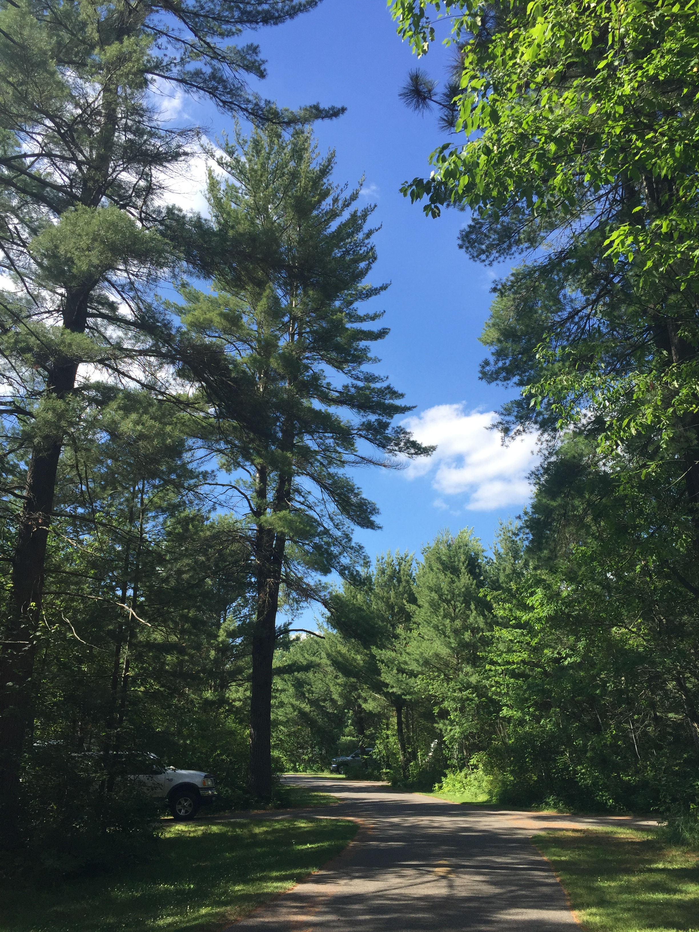 Large white pines in the campground at Hartwick Pines State Park, Michigan